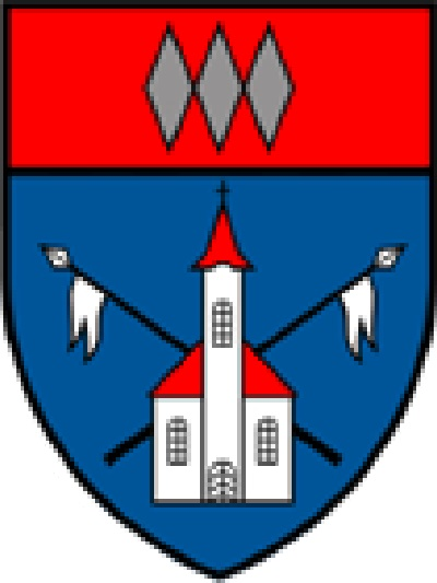 Coat of arms of Lanzenkirchen, Lower Austria